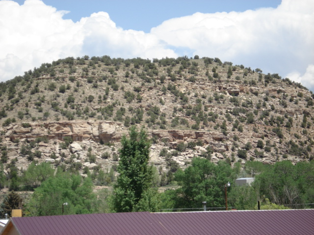 Naturita Formation near the type locality at Naturita, Colorado.